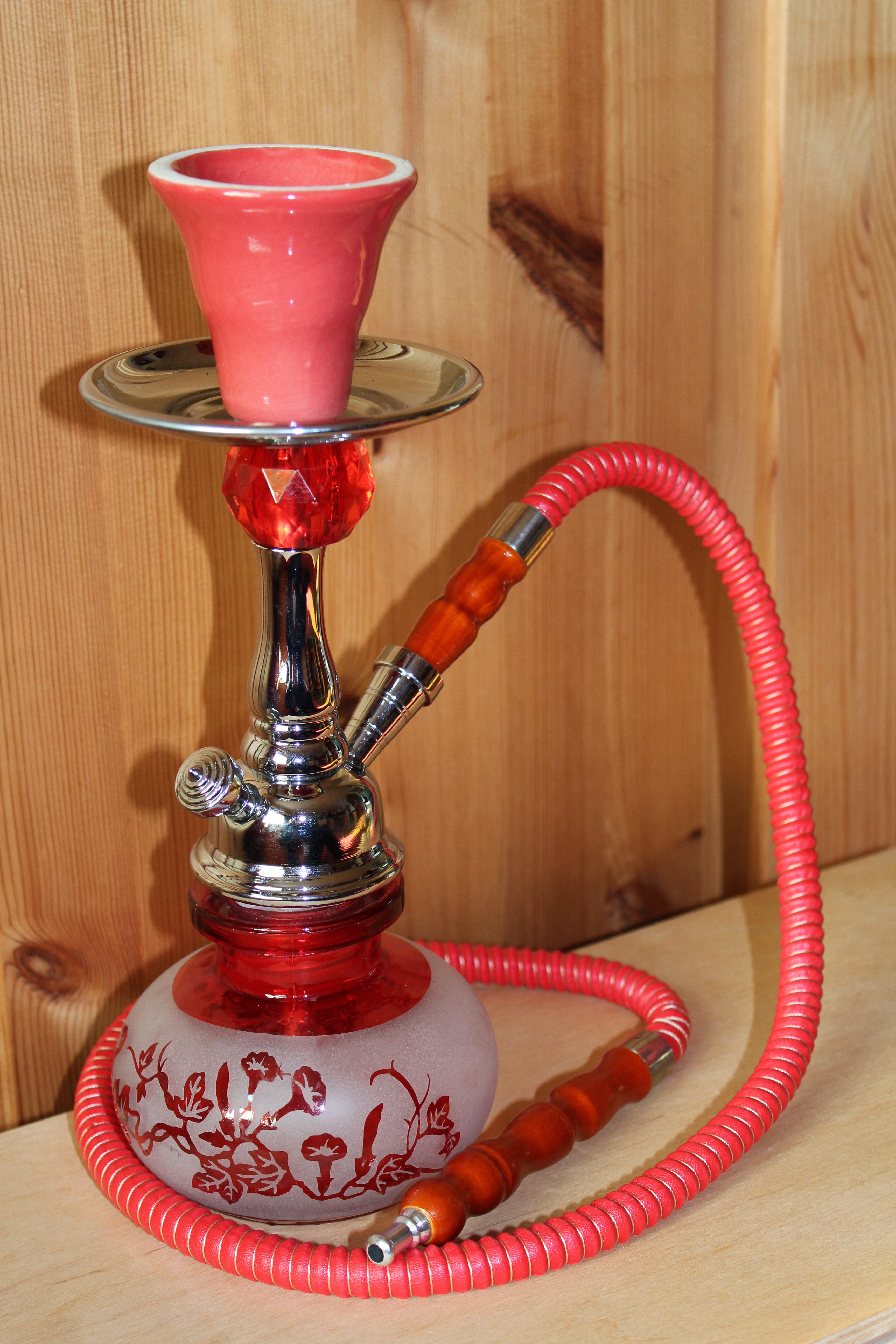 A 24cm tall Minishisha with decorated glass.